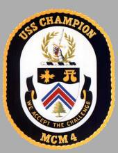 Patch of the USS Champion (MCM-4)